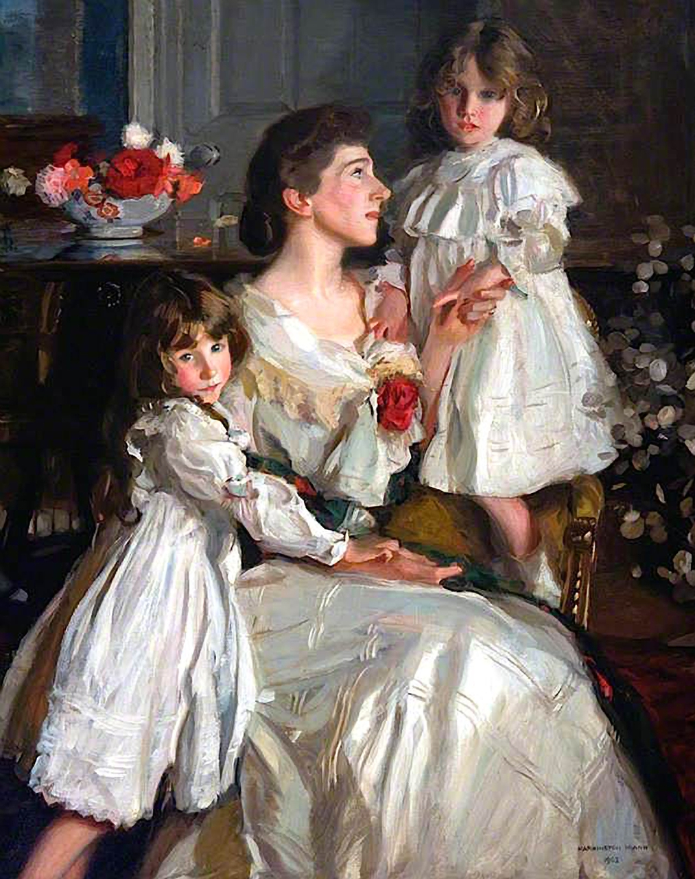 Alice Marjorie Cunningham (d.1943), Wife of Augustus Kennedy-Erskine, 18th of Dun, with Their Daughters Marjorie and Millicent